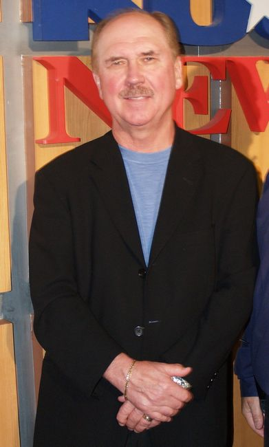 I personally took this photo of David Morrell. He has written 31 books, including "First Blood" which was the basis for the Rambo movies.